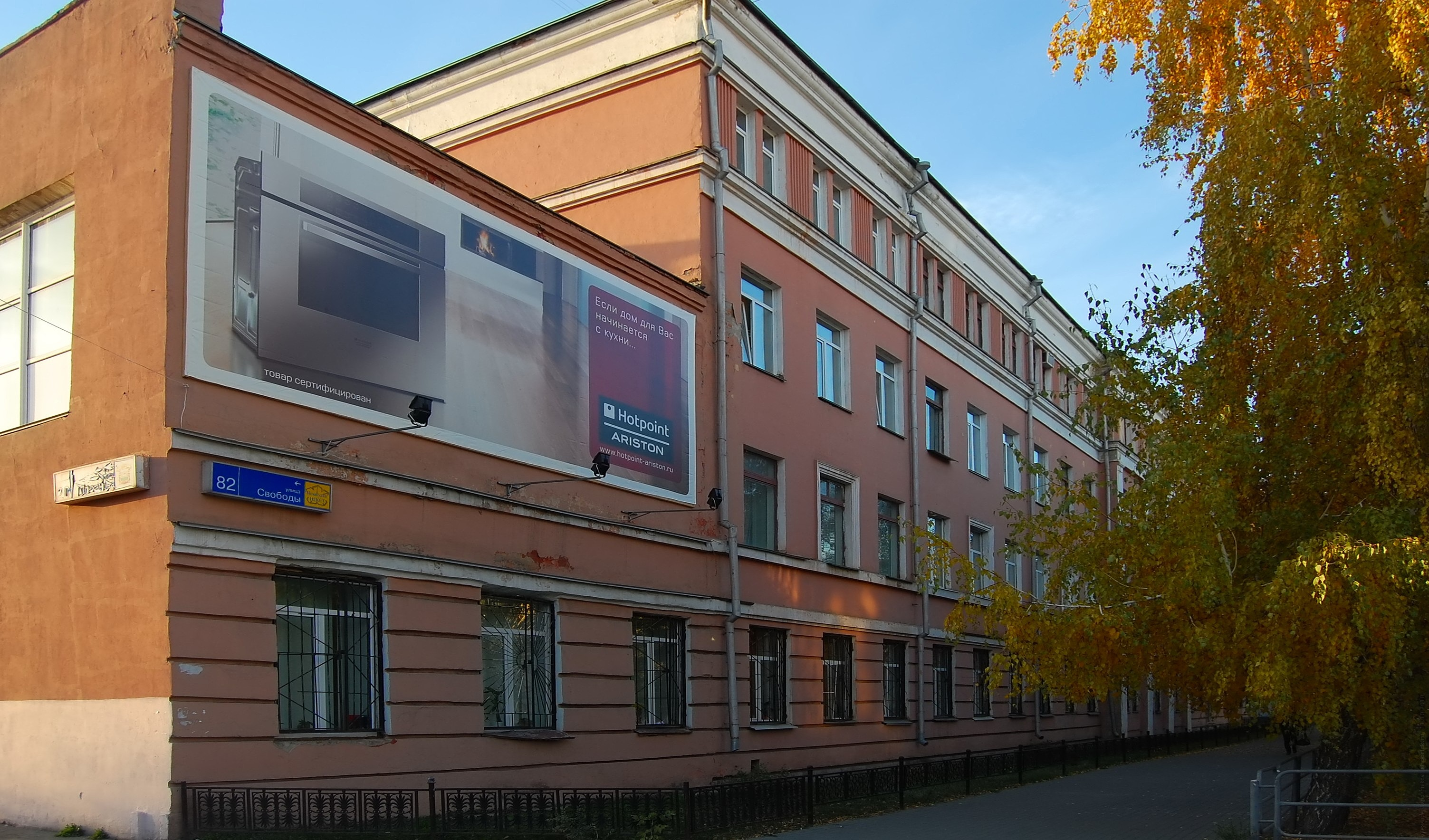 School number 121 in Chelyabinsk, Russia